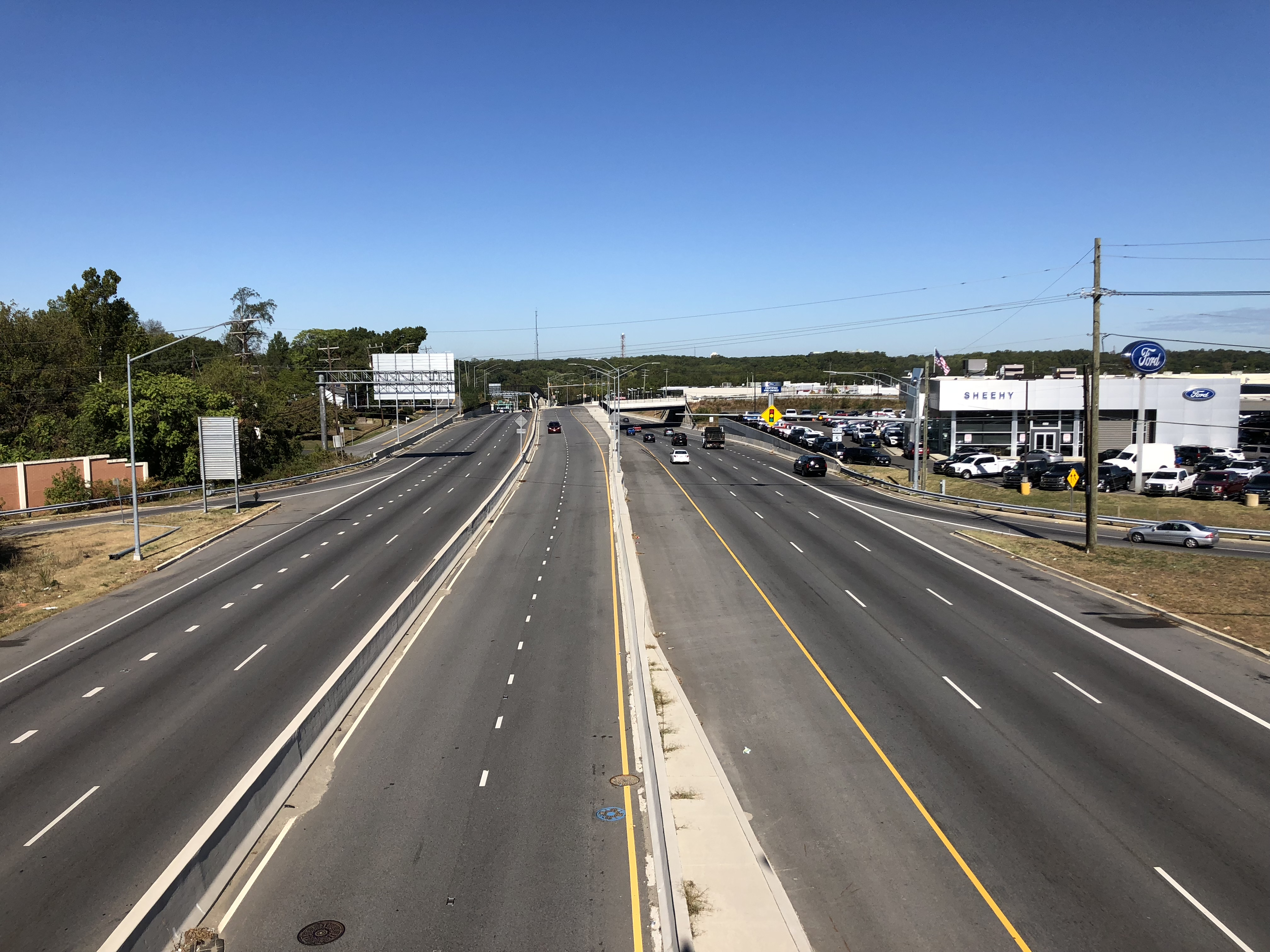 View north along Maryland State Route 5 (Branch Avenue) from the overpass for the ramp from southbound Interstate 95/Interstate 495 to southbound Maryland State Route 5 in Camp Springs, Prince George's County, Maryland